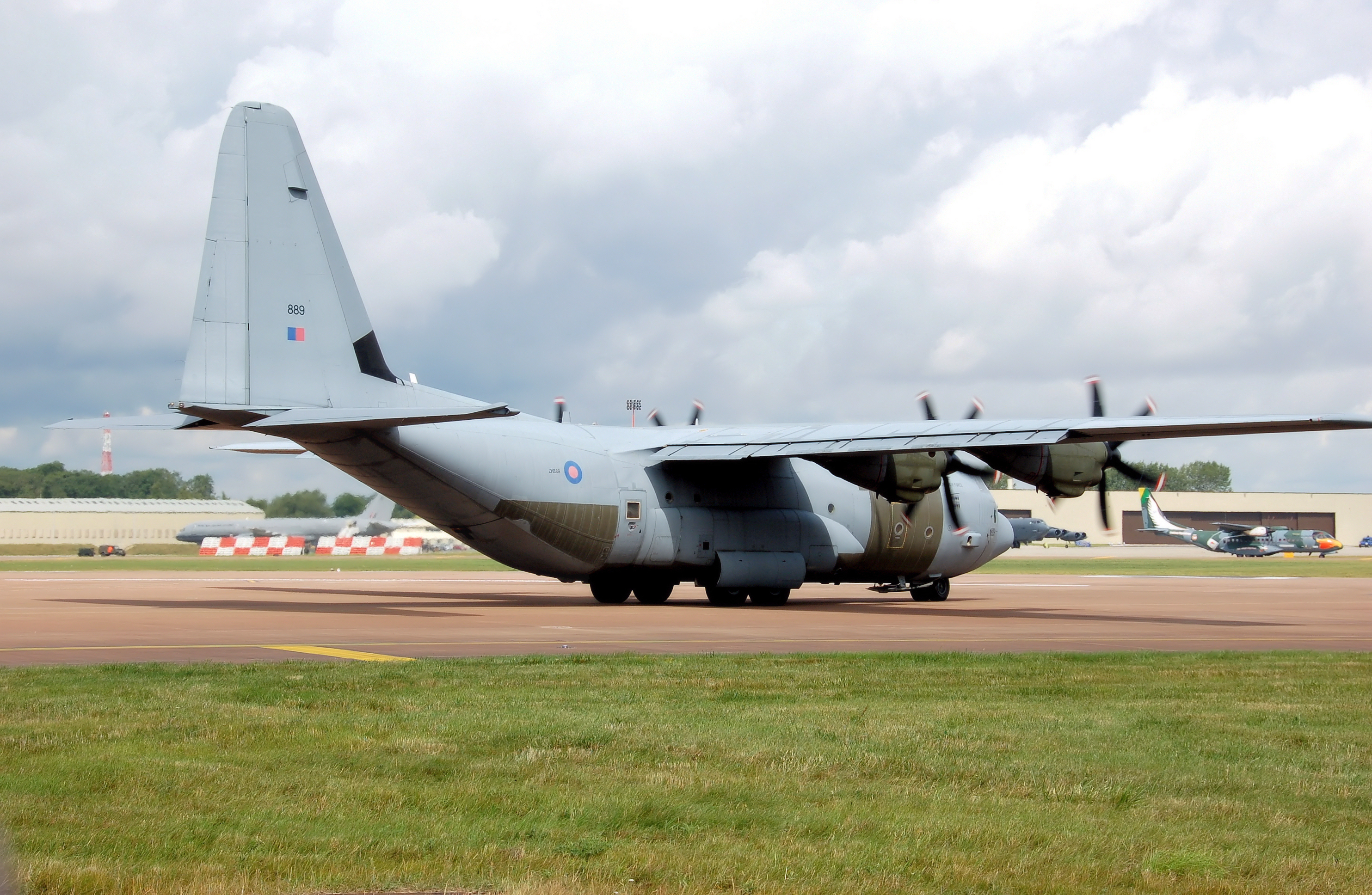 Lockheed Martin C-130J Hercules C.5 taxiing for takeoff at the 2009 Royal International Air Tattoo, Fairford, Gloucestershire, England.